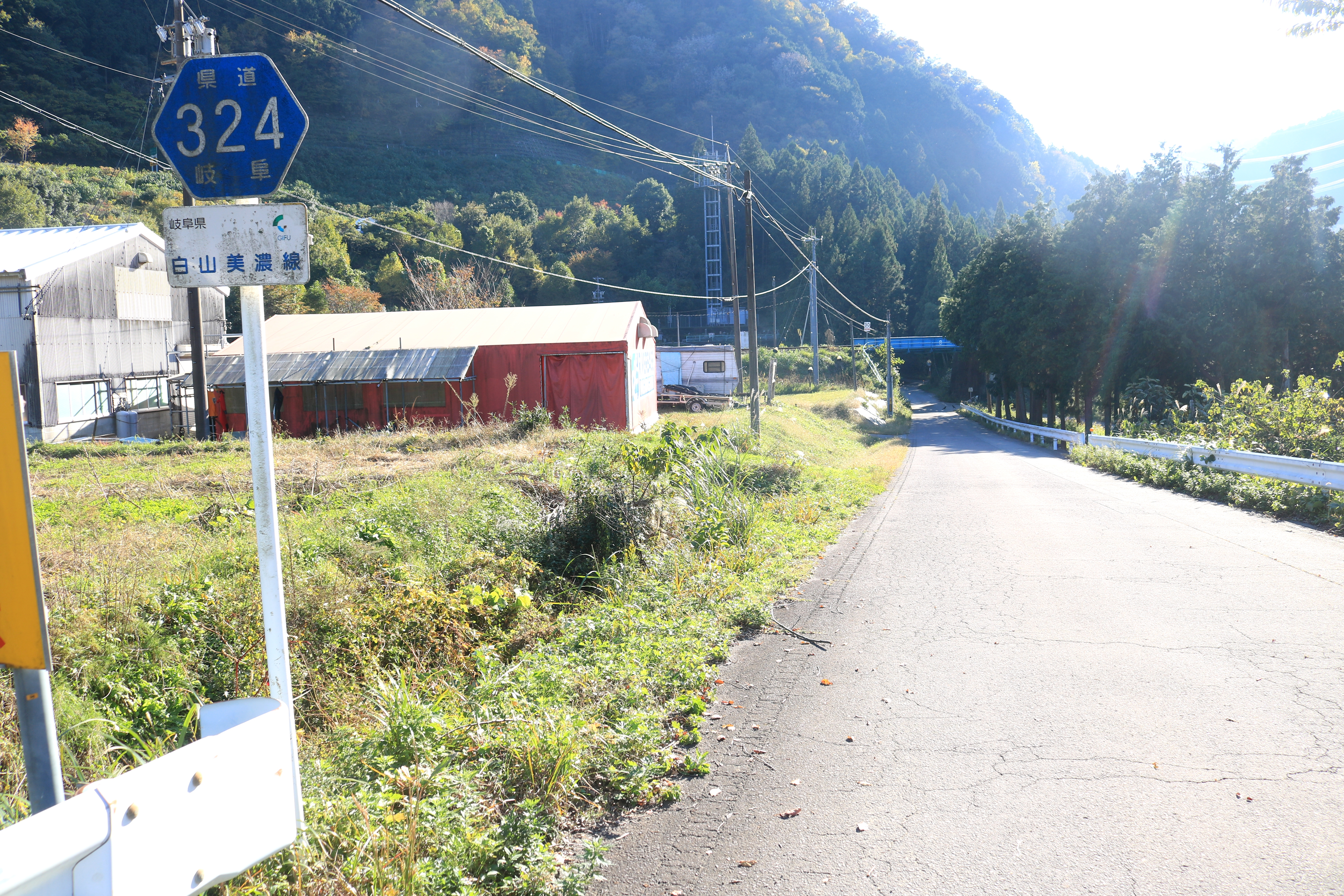 Gifu Prefectural Road Route 324 in Ohara, Minamichō, Gujō, Gifu Prefecture, Japan.